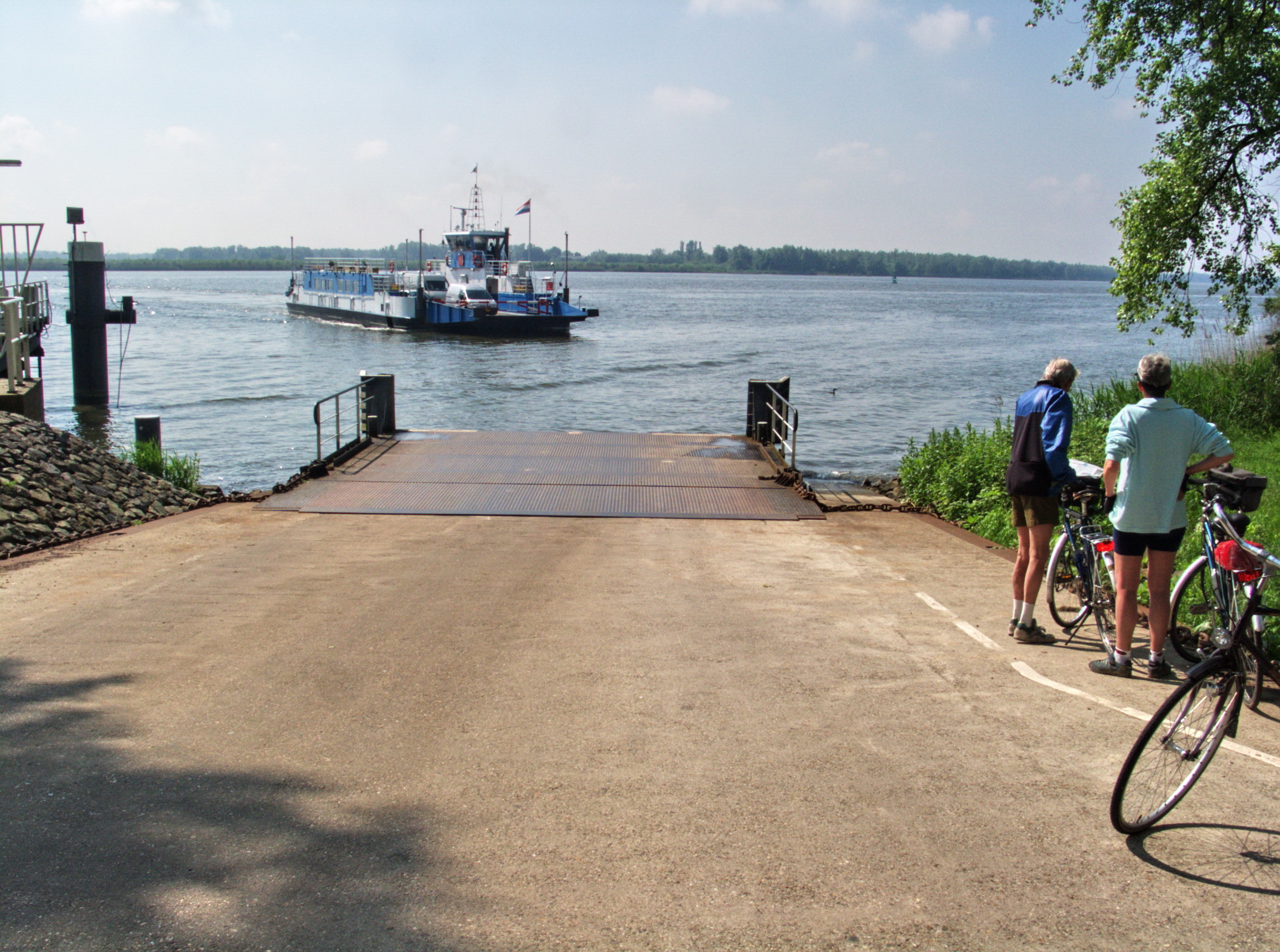 around holland - Kop van 't Land